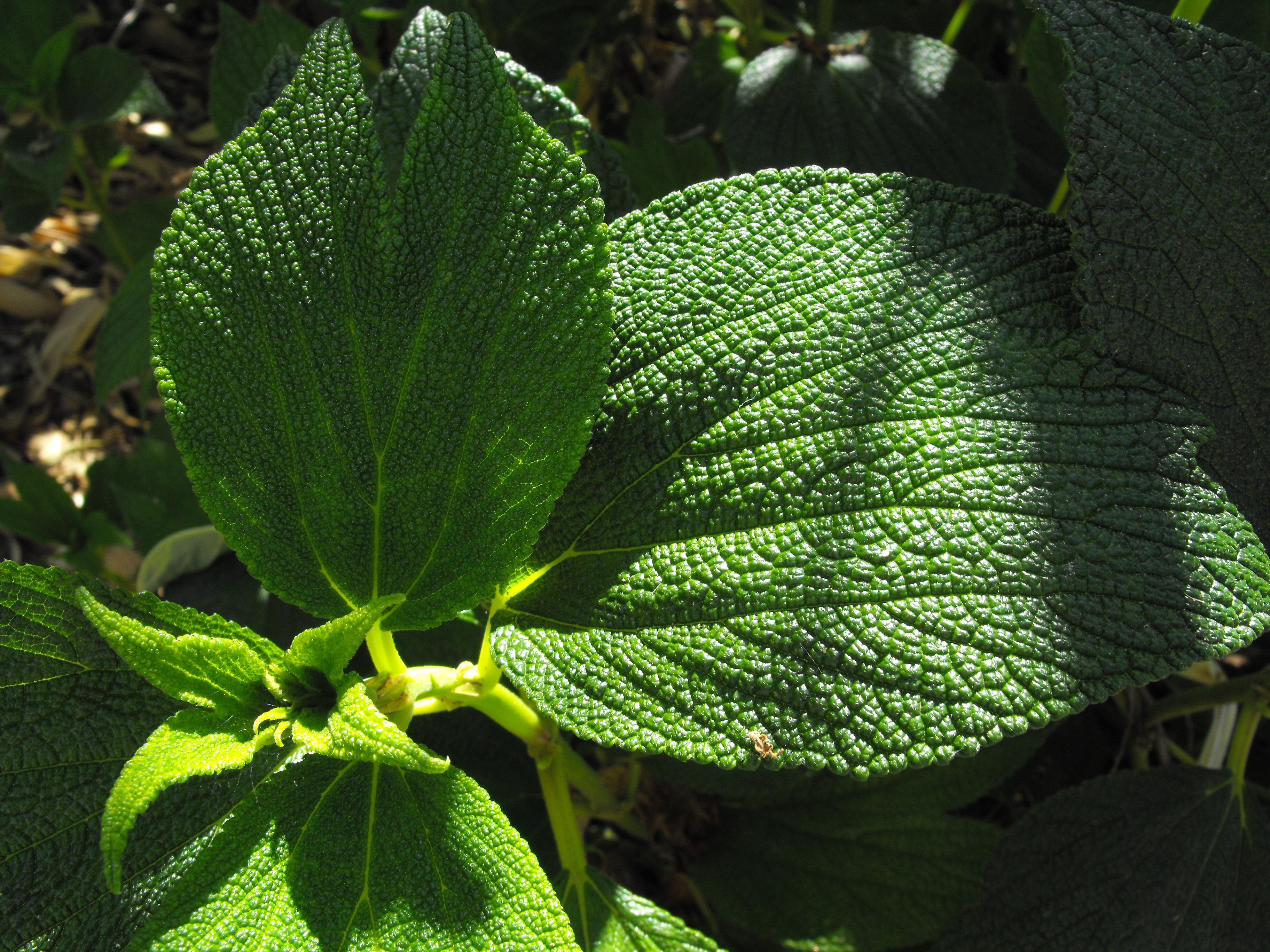 Debregeasia longifolia at Quail Botanical Gardens in Encinitas, California, USA.